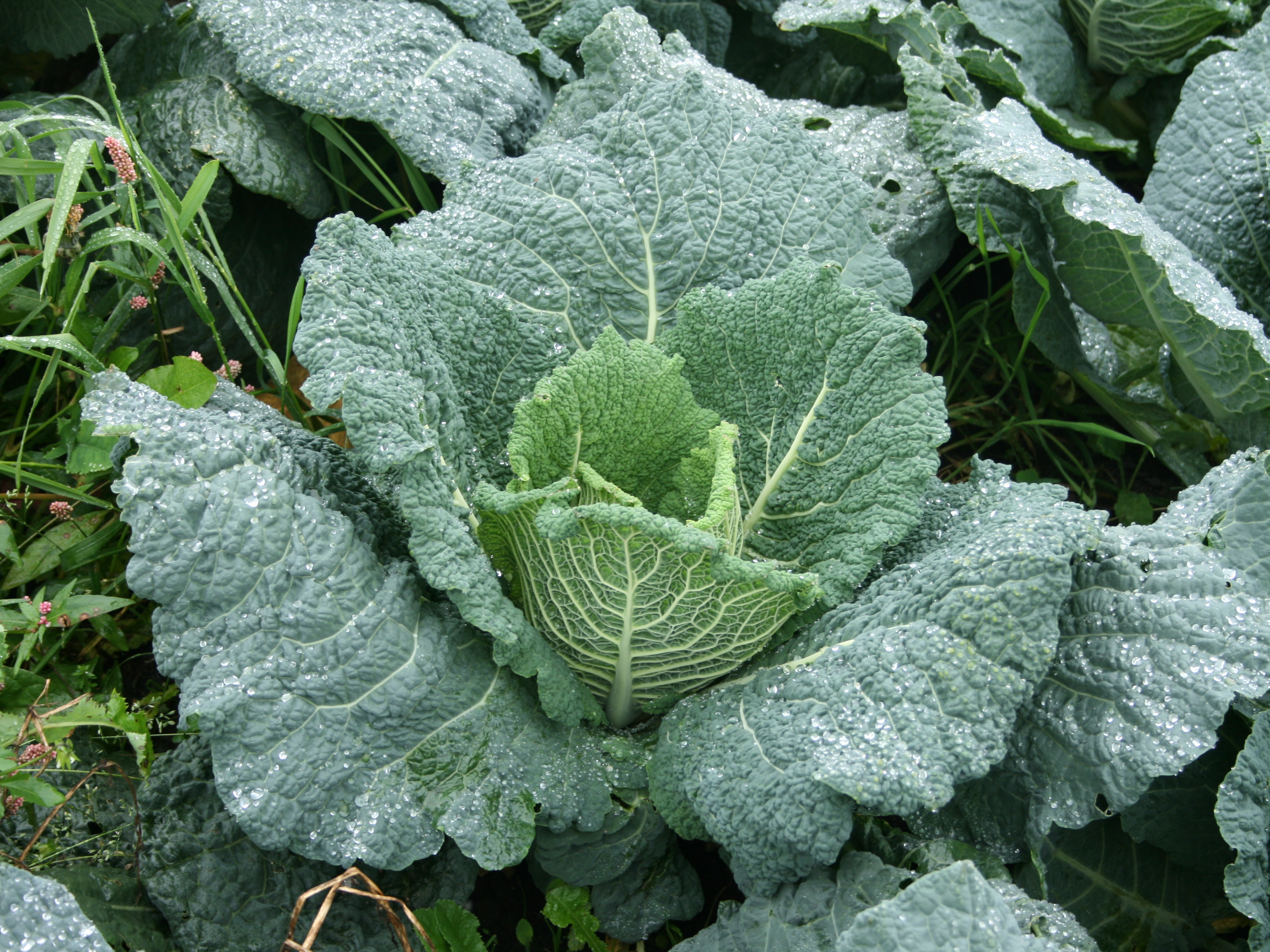 Savoy cabbage from Moss Brook Growers' farm in Manchester, UK.